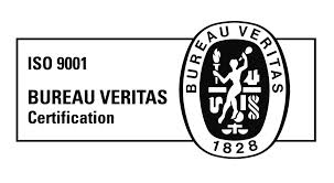 Logo ISO